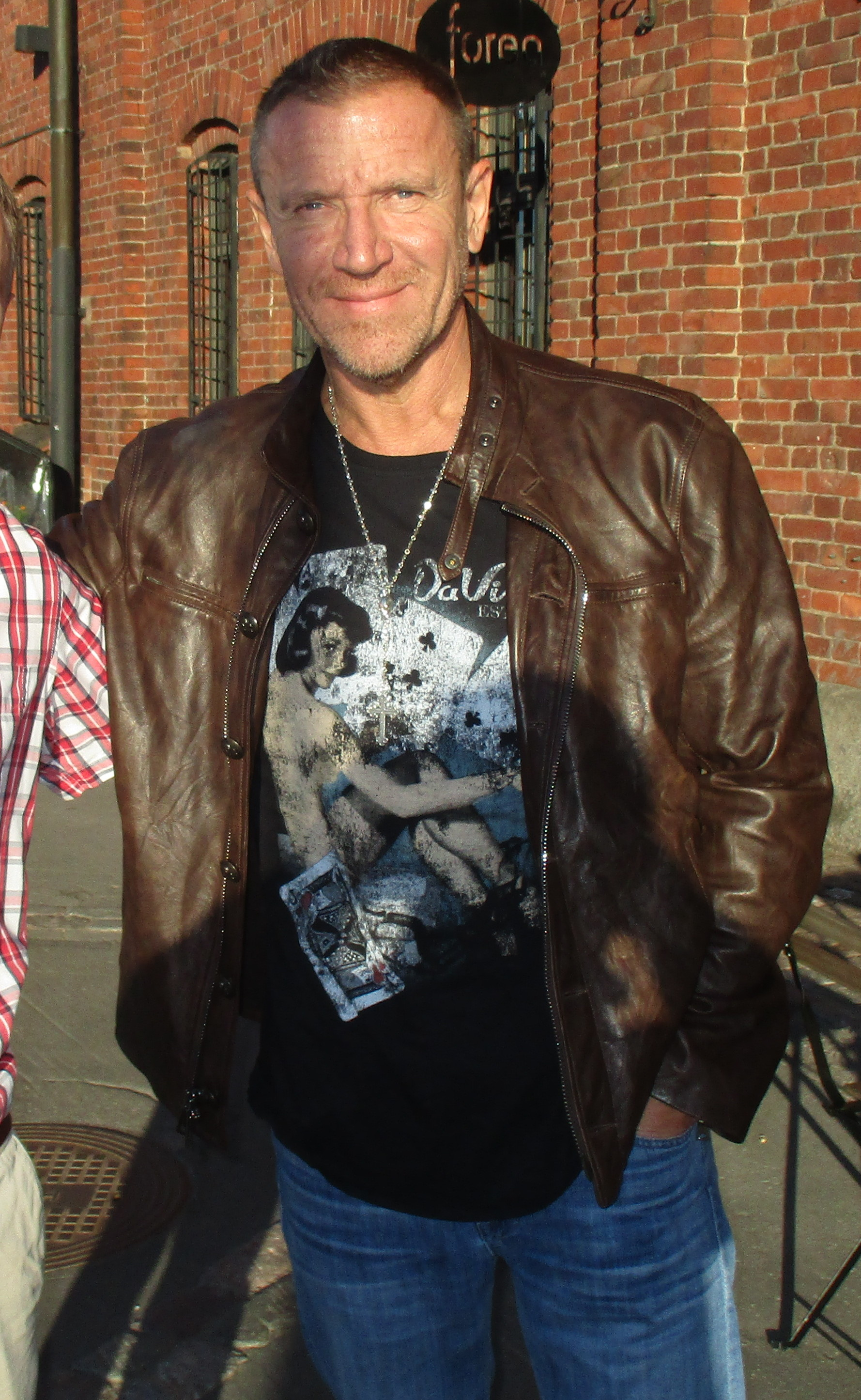 Don Bigileone and Renny Harlin in front of the karaoke bar Wallis in Helsinki, Finland on 28th of June 2017